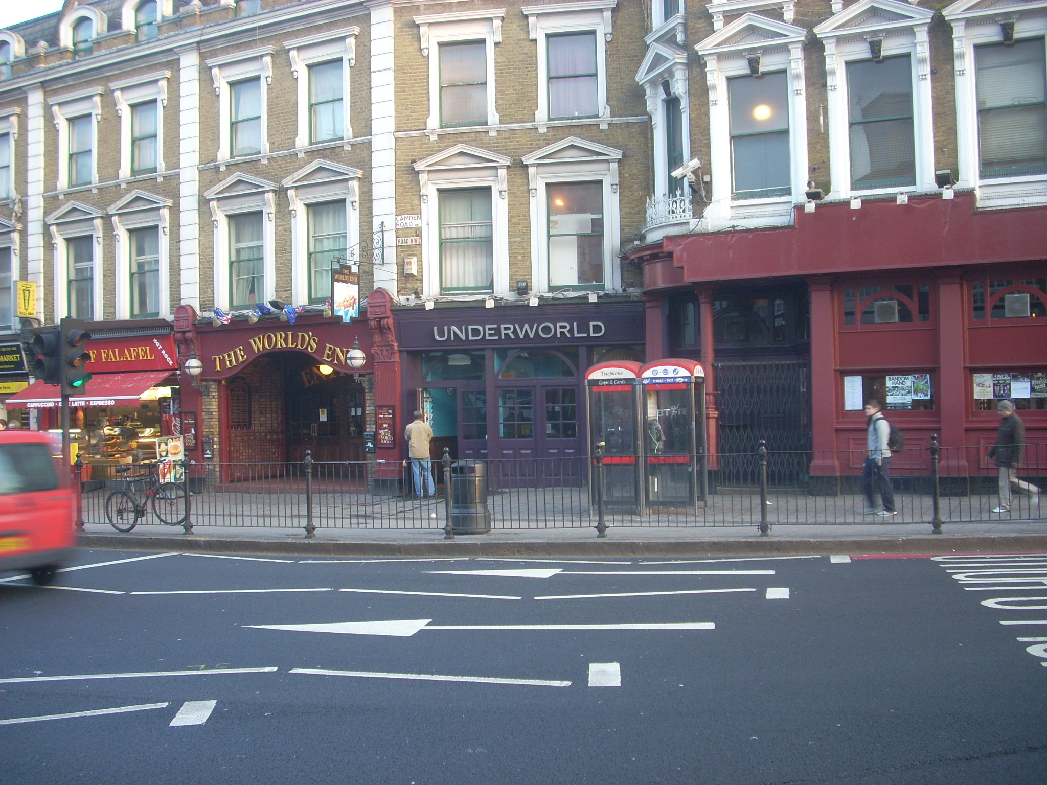 Underworld, Camden, London, Nightclub